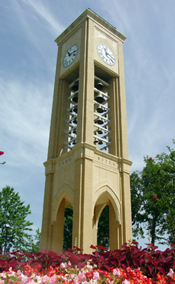 Author: Robin Kelly Photographer: Robin Kelly Photo taken on UT Tyler campus of Riter Tower